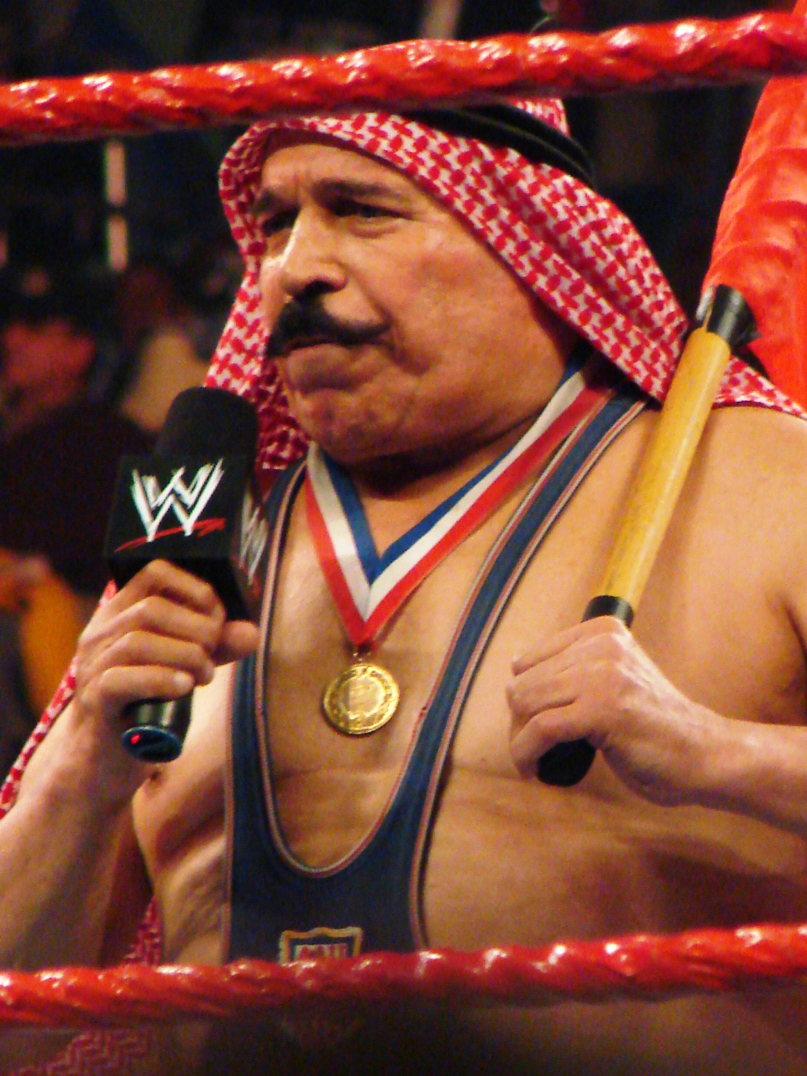 The Iron Shiek at WWE Raw. Bradley Center, Milwaukee, WI. Rotated, cropped, and brightened.